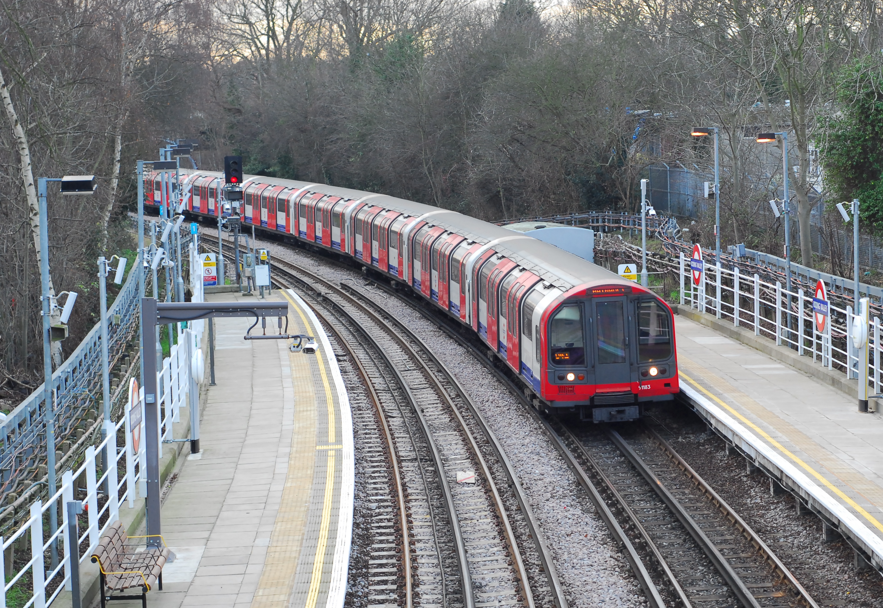 A train of London Underground 1992 Tube Stock approaches Roding Valley tube station on the Central Line.